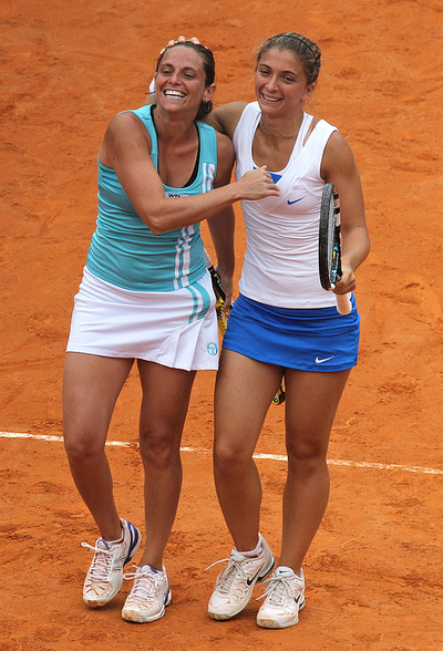 The Italian tennis players Roberta Vinci and Sara Errani at 2012 Rome Masters